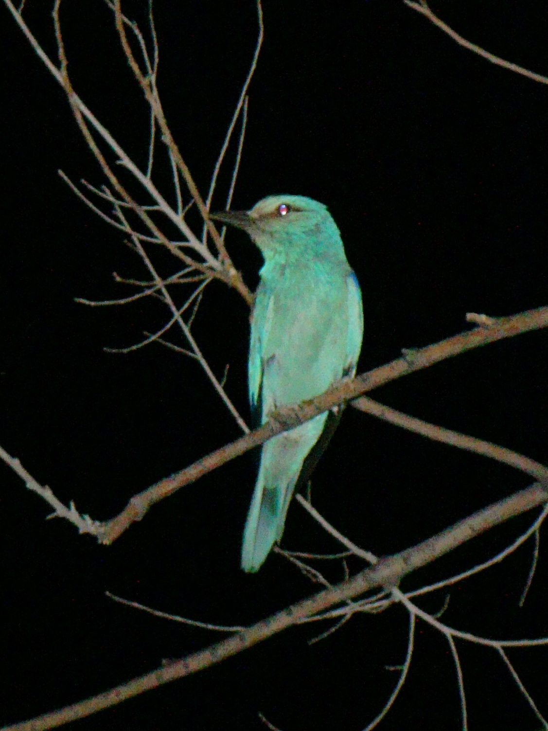 European Roller (Coracias garrulus). Evening hunting under a lantern. City park of Baikonur, Kazakhstan